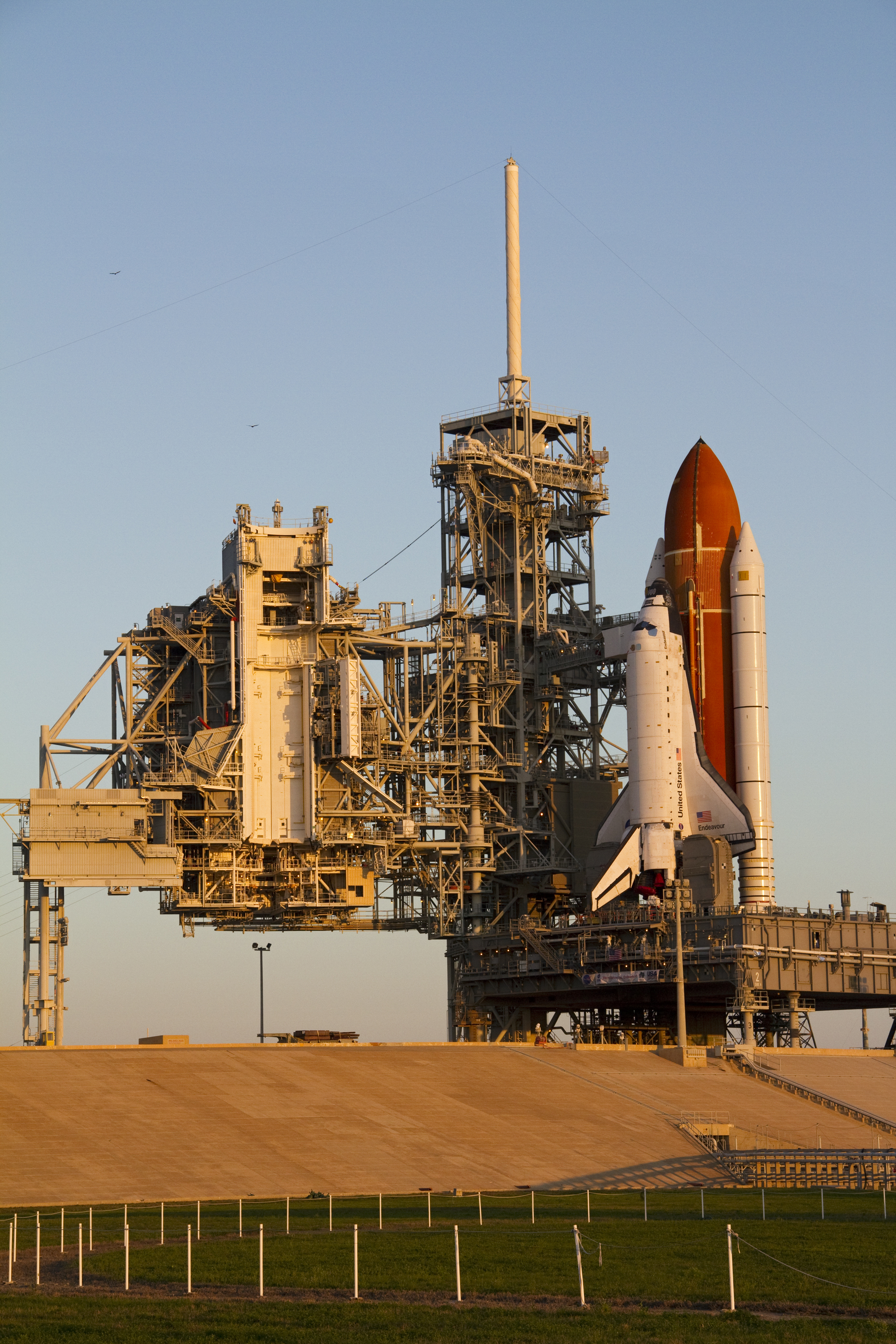 In the first light of day, space shuttle Endeavour stands ready for processing at Launch Pad 39A at NASA's Kennedy Space Center in Florida.